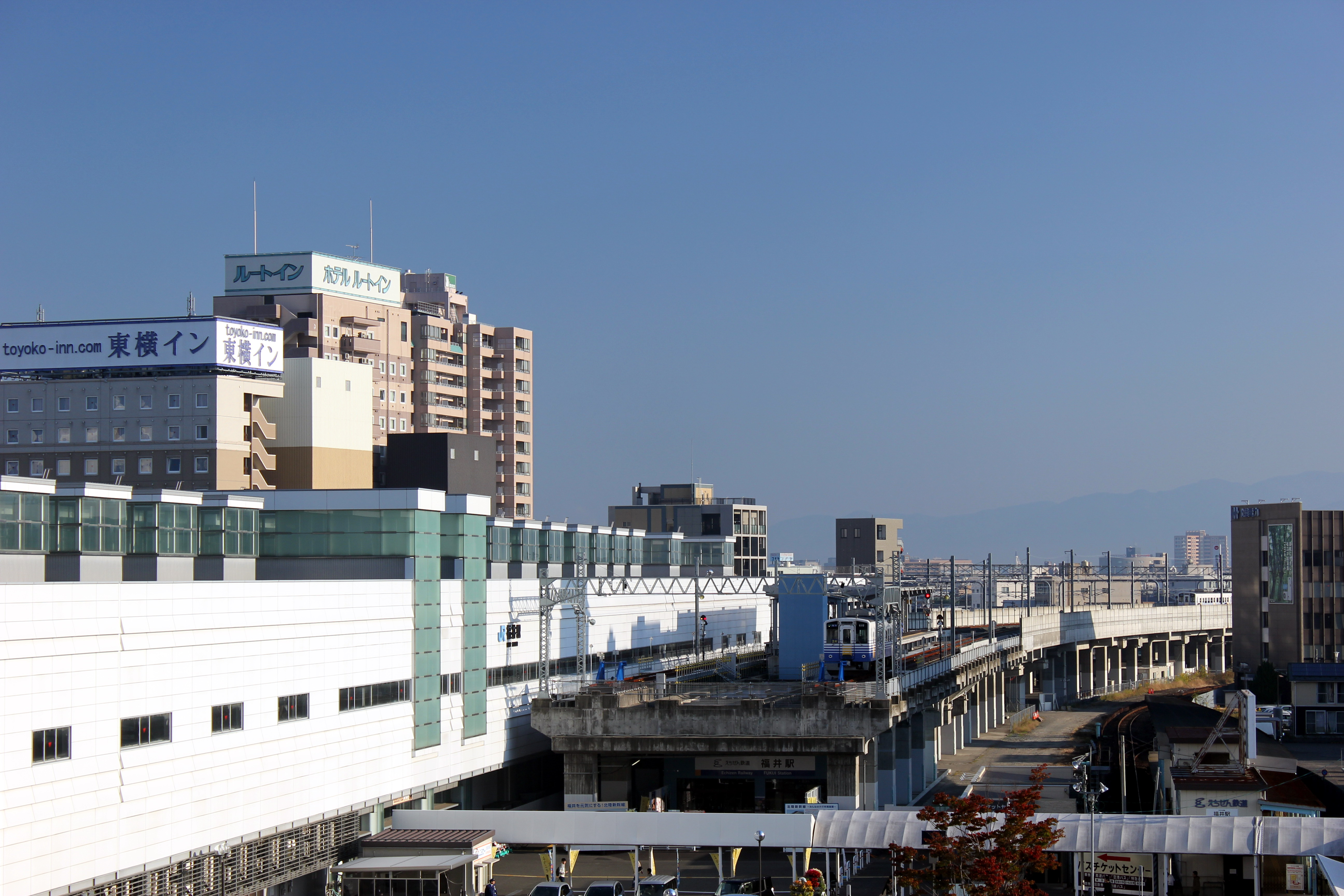 Fukui Station